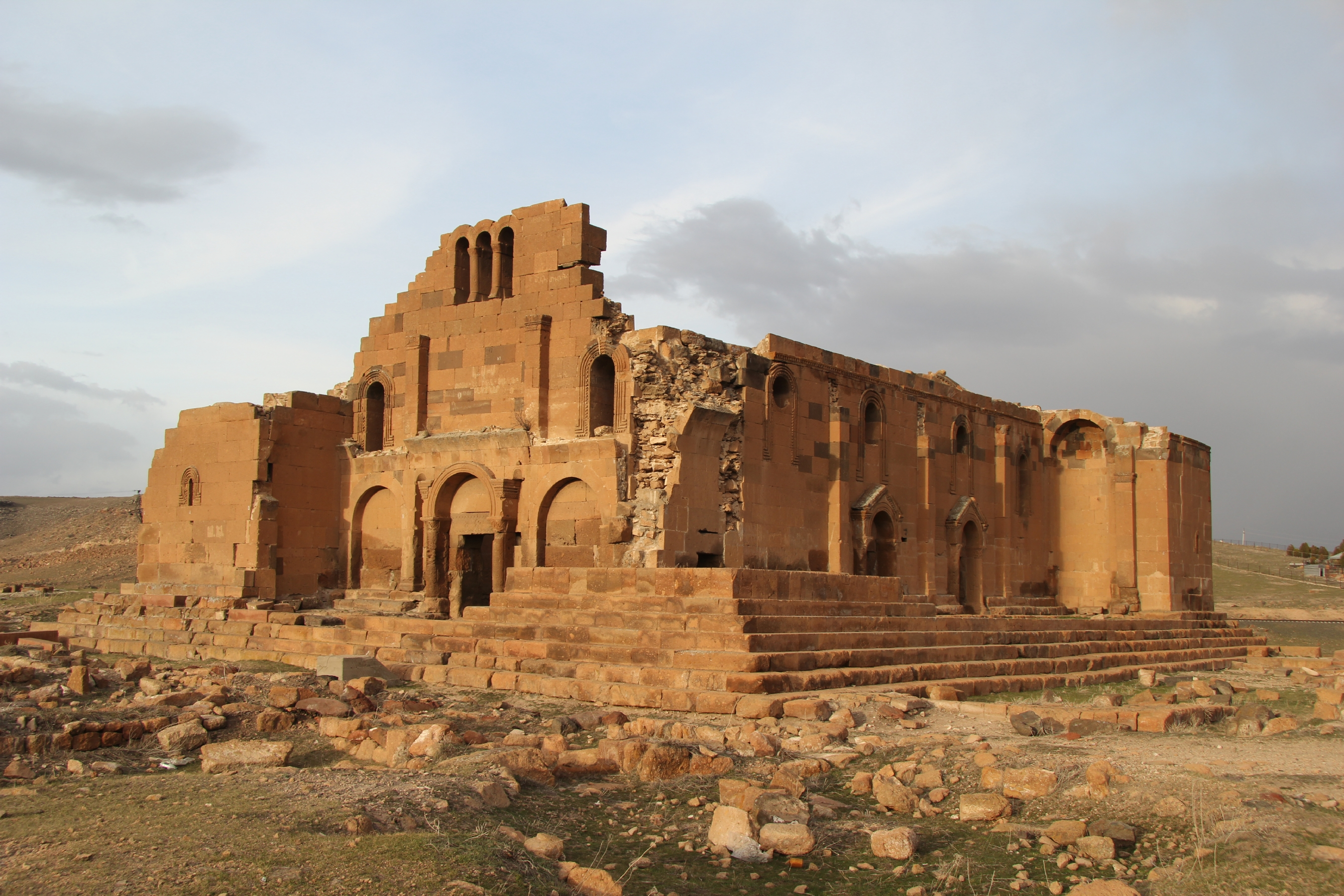 Երերույքի տաճար 13/2.7